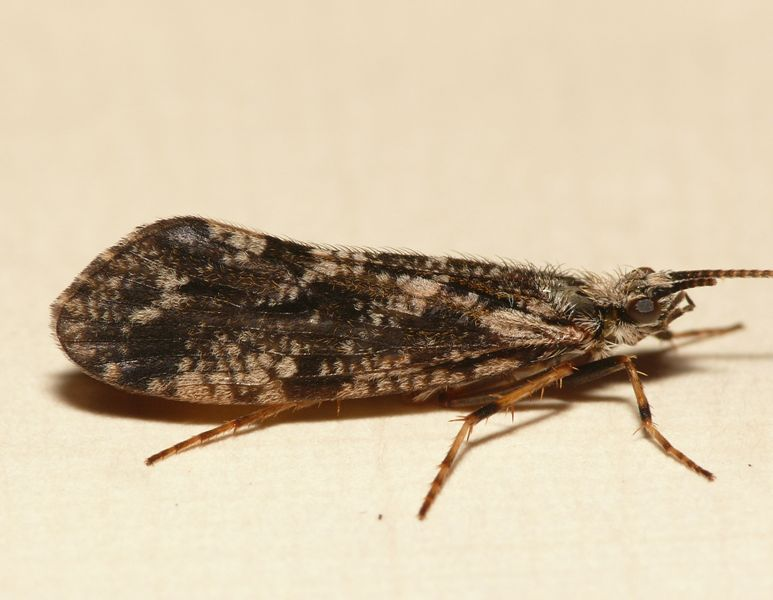 Trichostegia minor. Location: The Netherlands - Rhenen - Blauwe Kamer